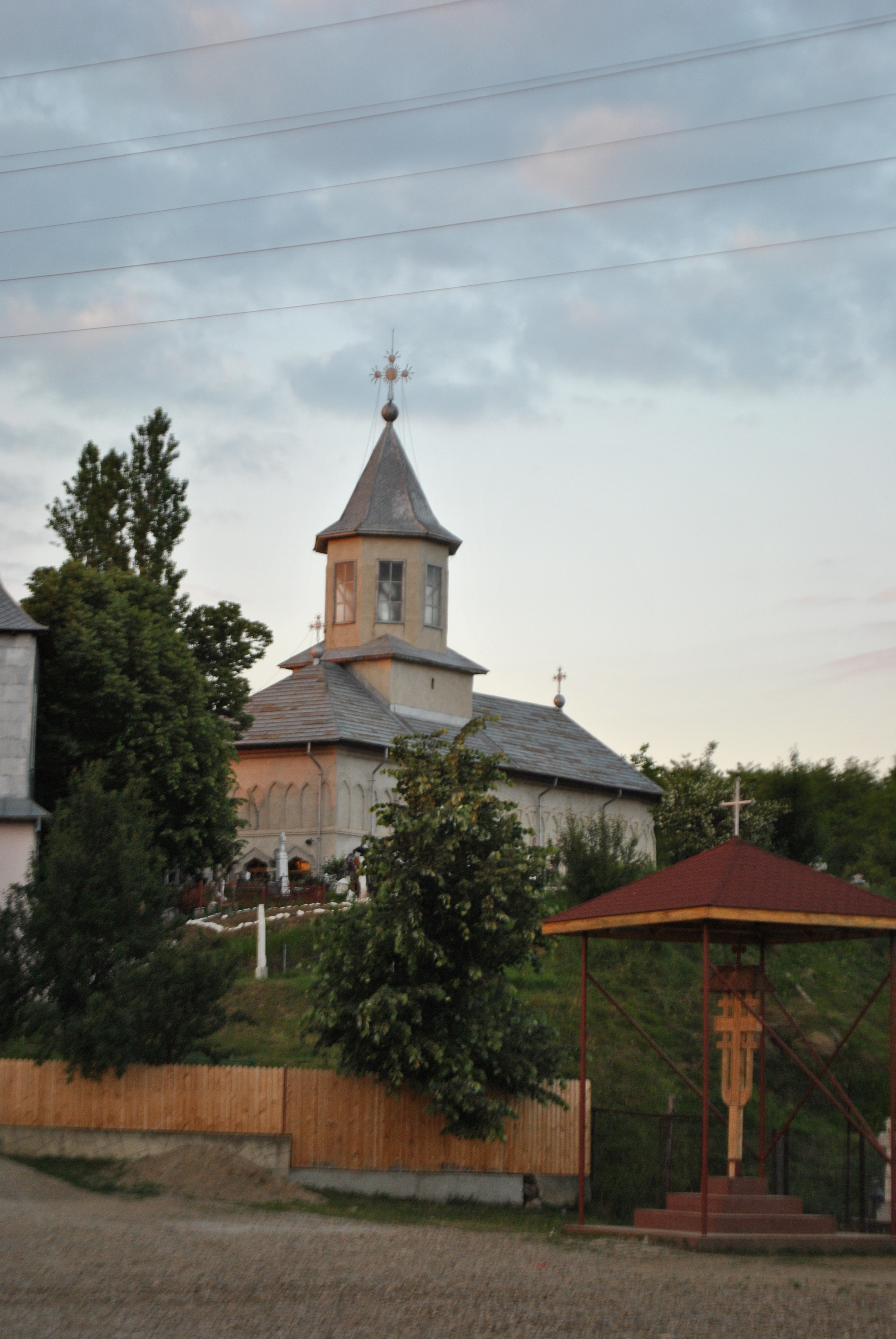 Saints Constantine and Helena church in Măteşti, Săpoca commune, Buzău County, RomaniaRomână: Biserica Sfinţii Constantin şi Elena din Măteşti, comuna Săpoca, judeţul Buzău, România 01